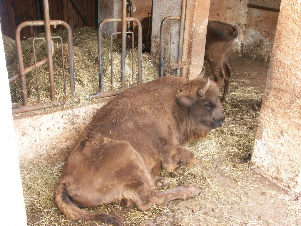 European Bison (Bison bonasus) from animal park of Gramat in France